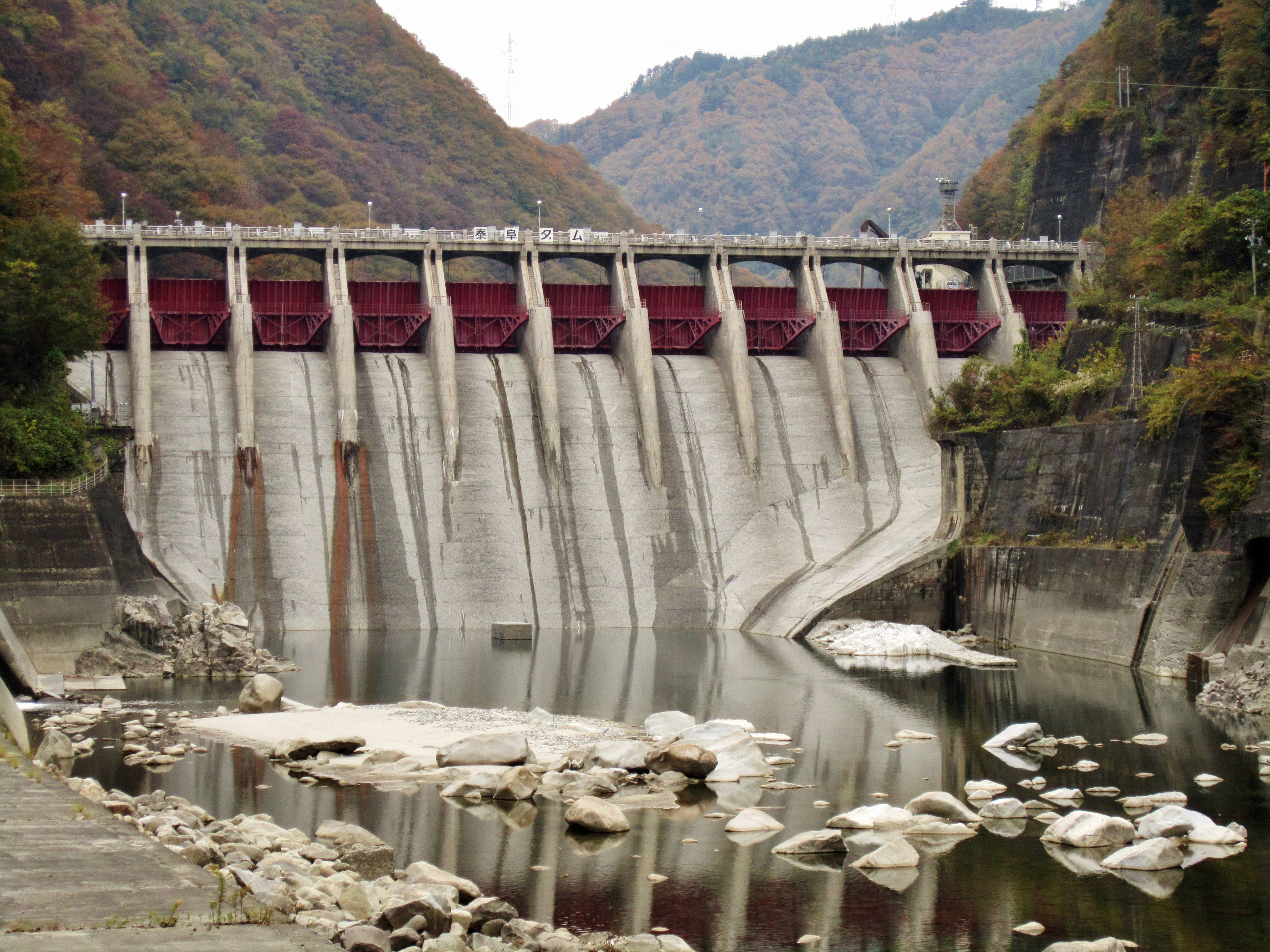 Yasuoka Dam.